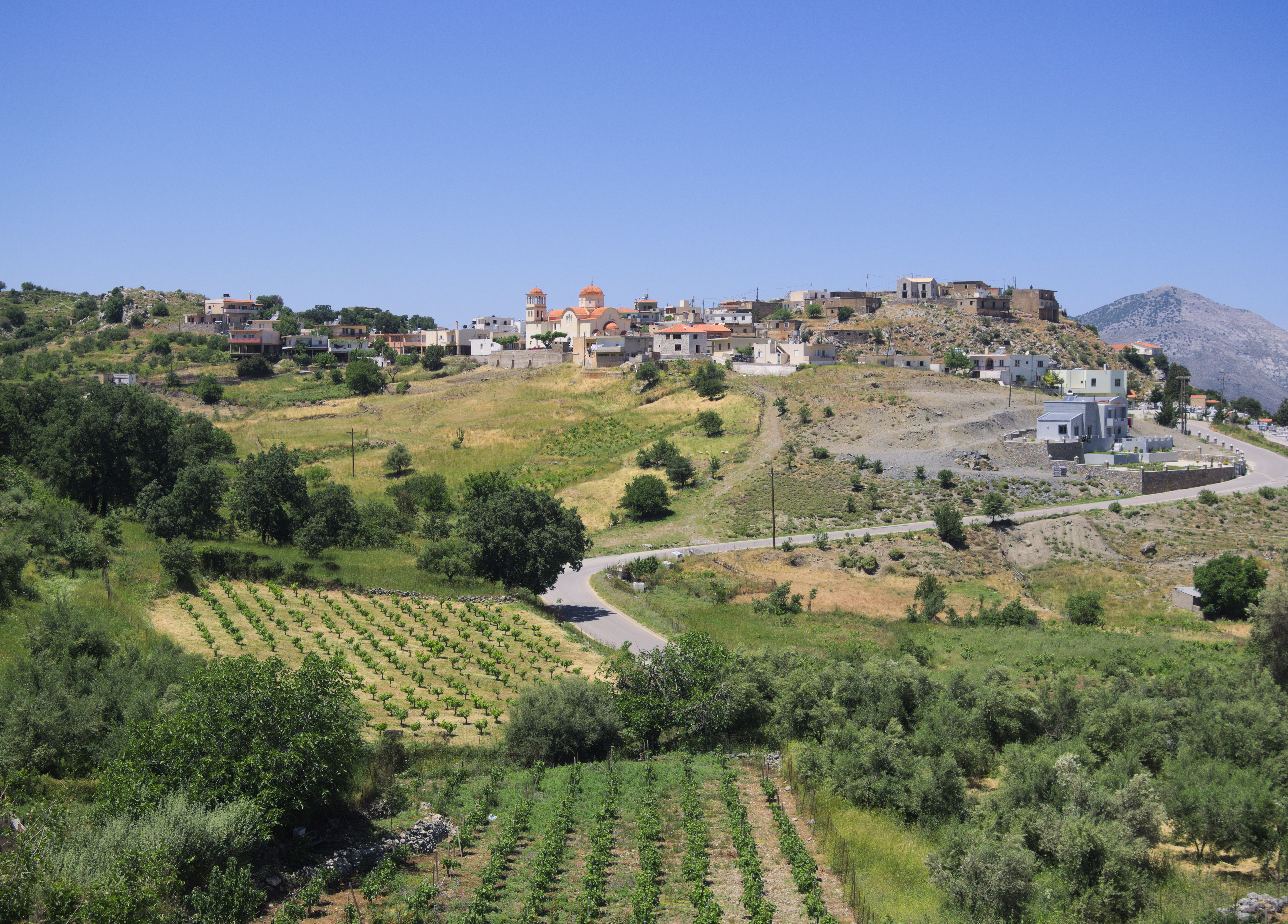 View of Livadia, Mylopotamos, Crete.